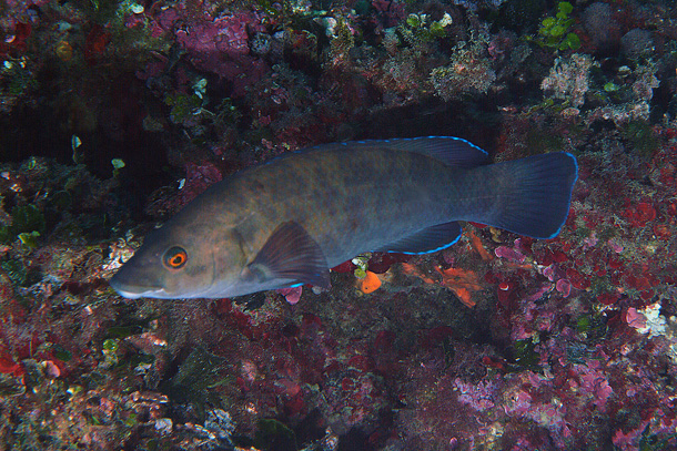 Labrus merula photographed near Tuscany coast (central Italy). Photo by Stefano Guerrieri.